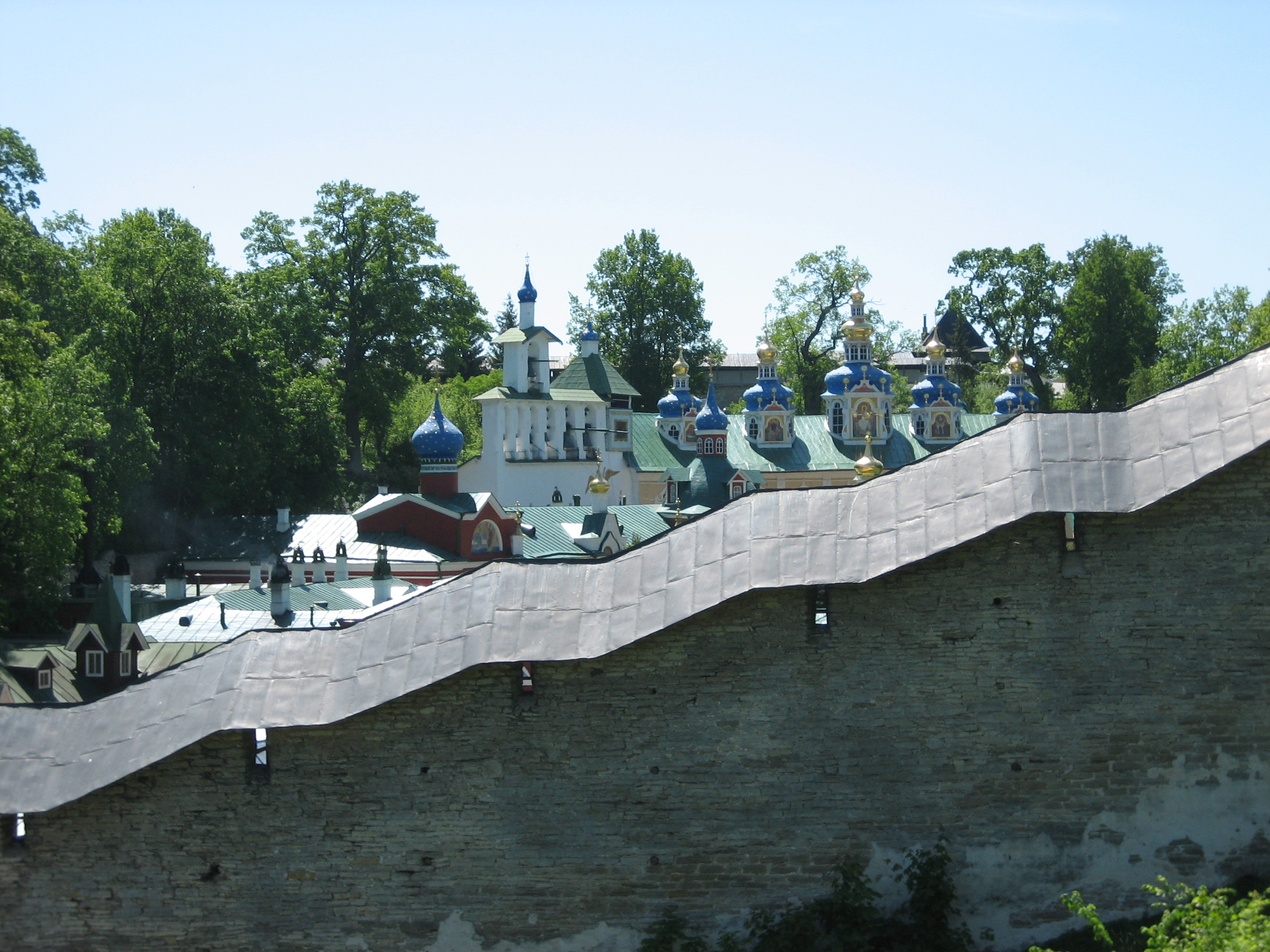 View of Pskovo-Pechorsky Monastery, seen over the monastery walls.